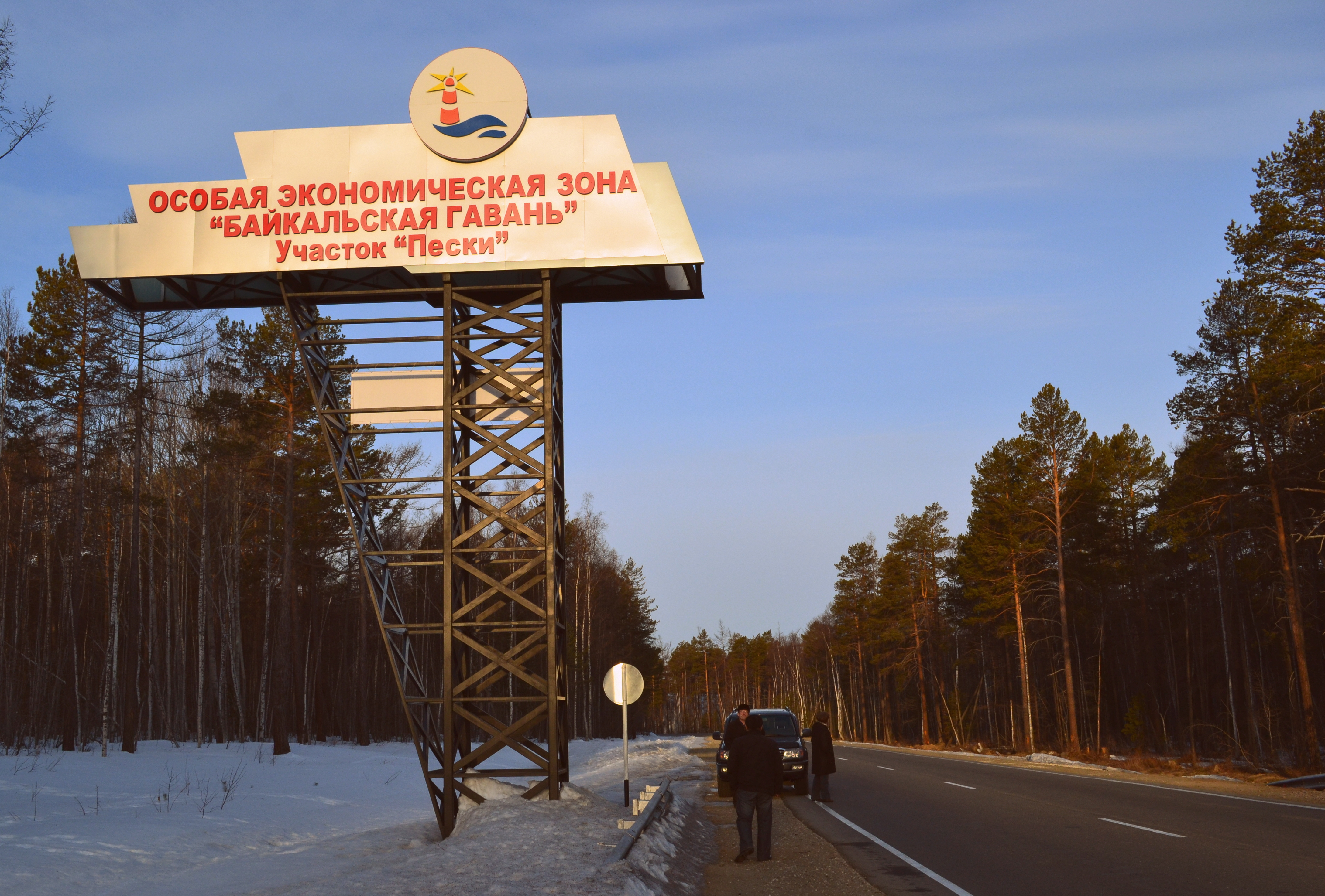 Tourist and recreation area "Baikal harbor". Pribaikalsky District of Buryatia, Siberia, Russia